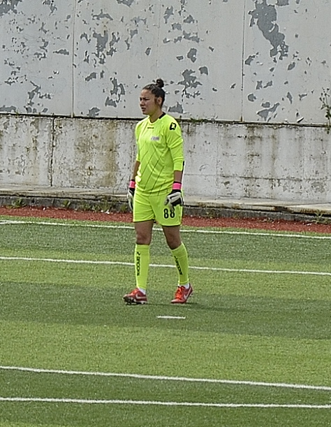 Bilgesu Aydın for Ataşehir Belediyespor in the 2013-14 season